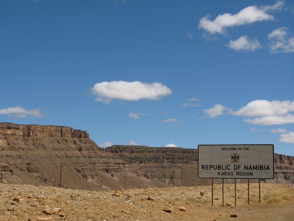 Picture taken by olivier PEYRE, March 2007